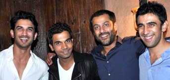 Sushant, Rajkumar, Abhishek and Amit at Kai Po Che!'s success bash